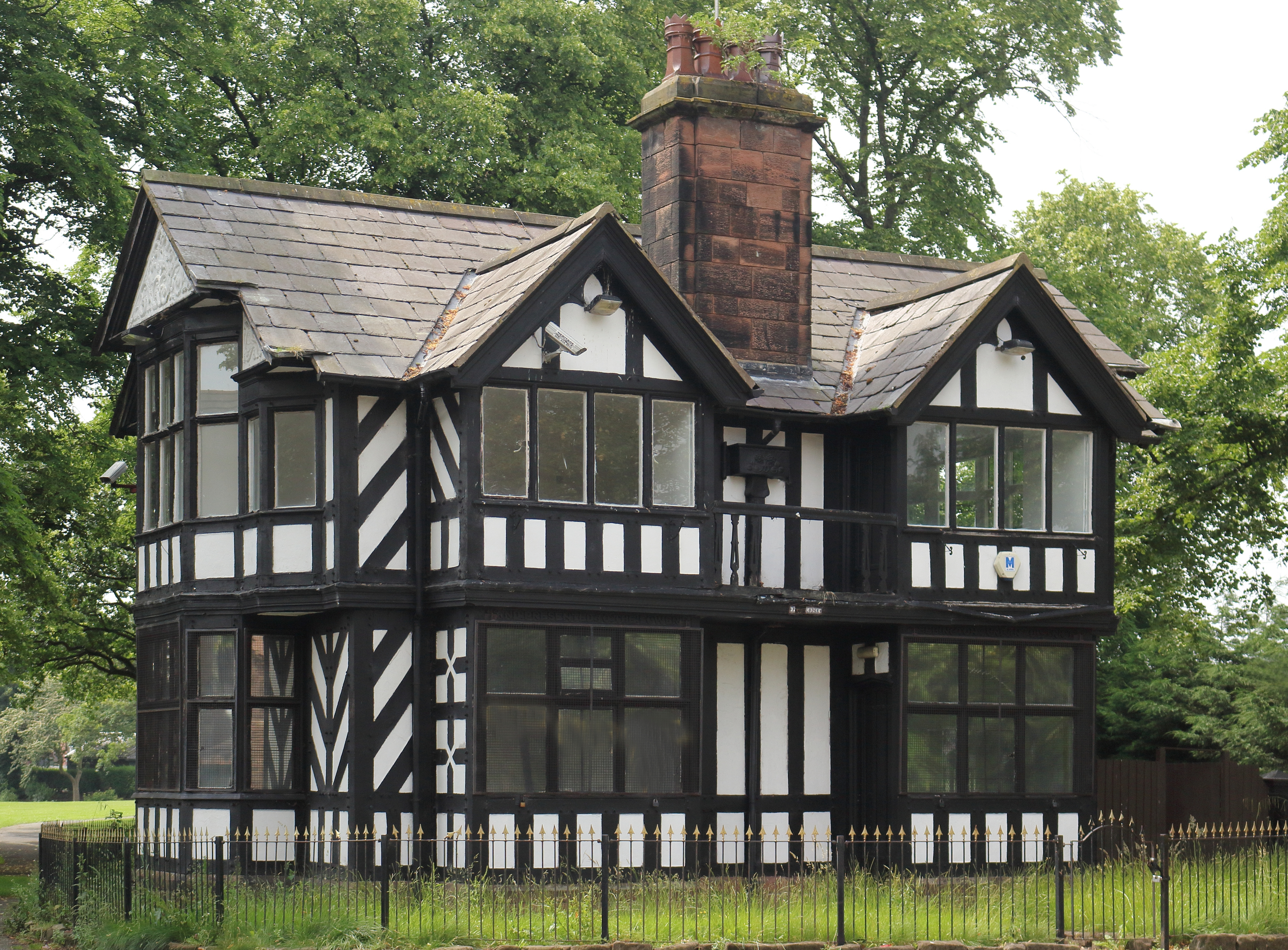 Park lodge of New Ferry Park, appearing to be unoccupied.